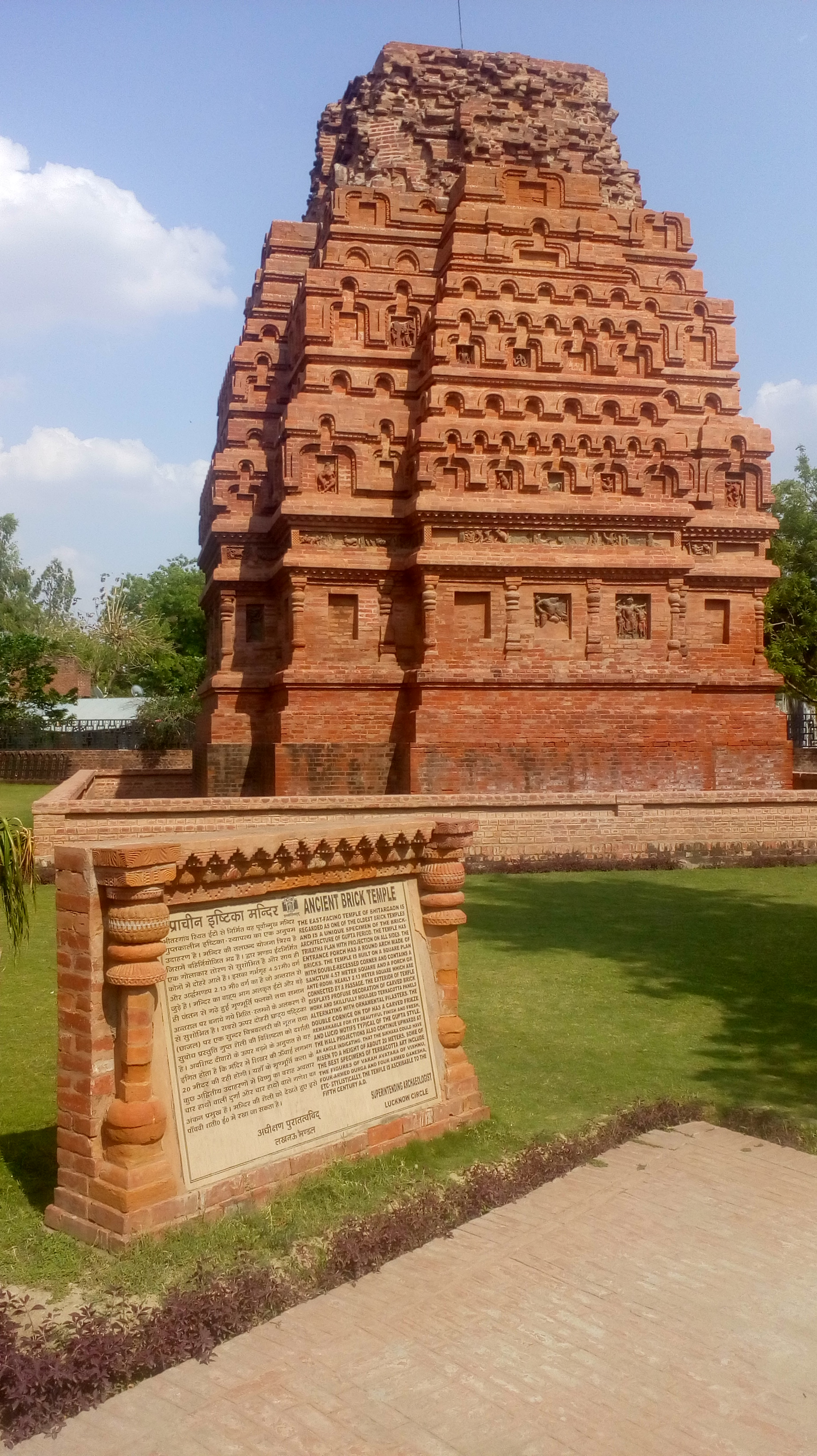 BHITARGAON TEMPLE ALONG WITH ASI INSCRIPTION.